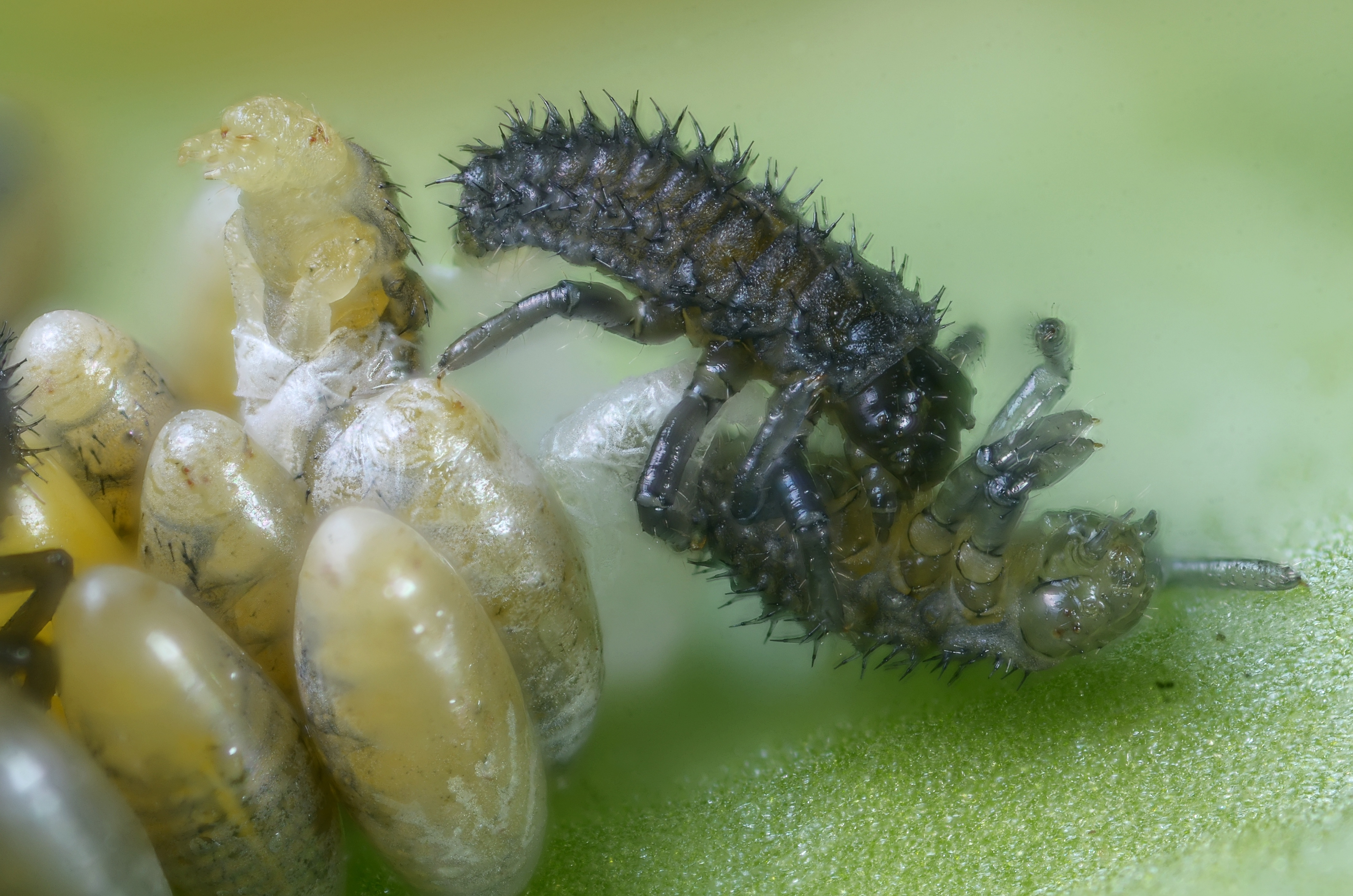 Just hatched larva of the ladybird Harmonia axyridis feeding on one of her brother or sister. A very common behavior in most predaceous ladybirds species. Gembloux. Focus stack of 12 images. Schneider Kreuznach Componon 28 mm f/4 at f/4 reversed on bellow.